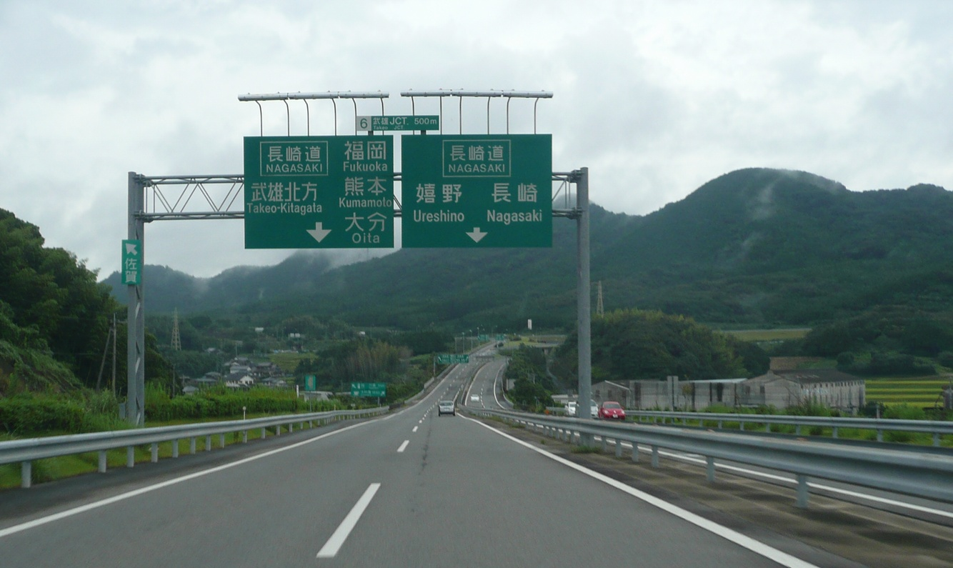 Takeo Sasebo Road (Nishikyushu Expressway - Takeo City, Saga, Japan)